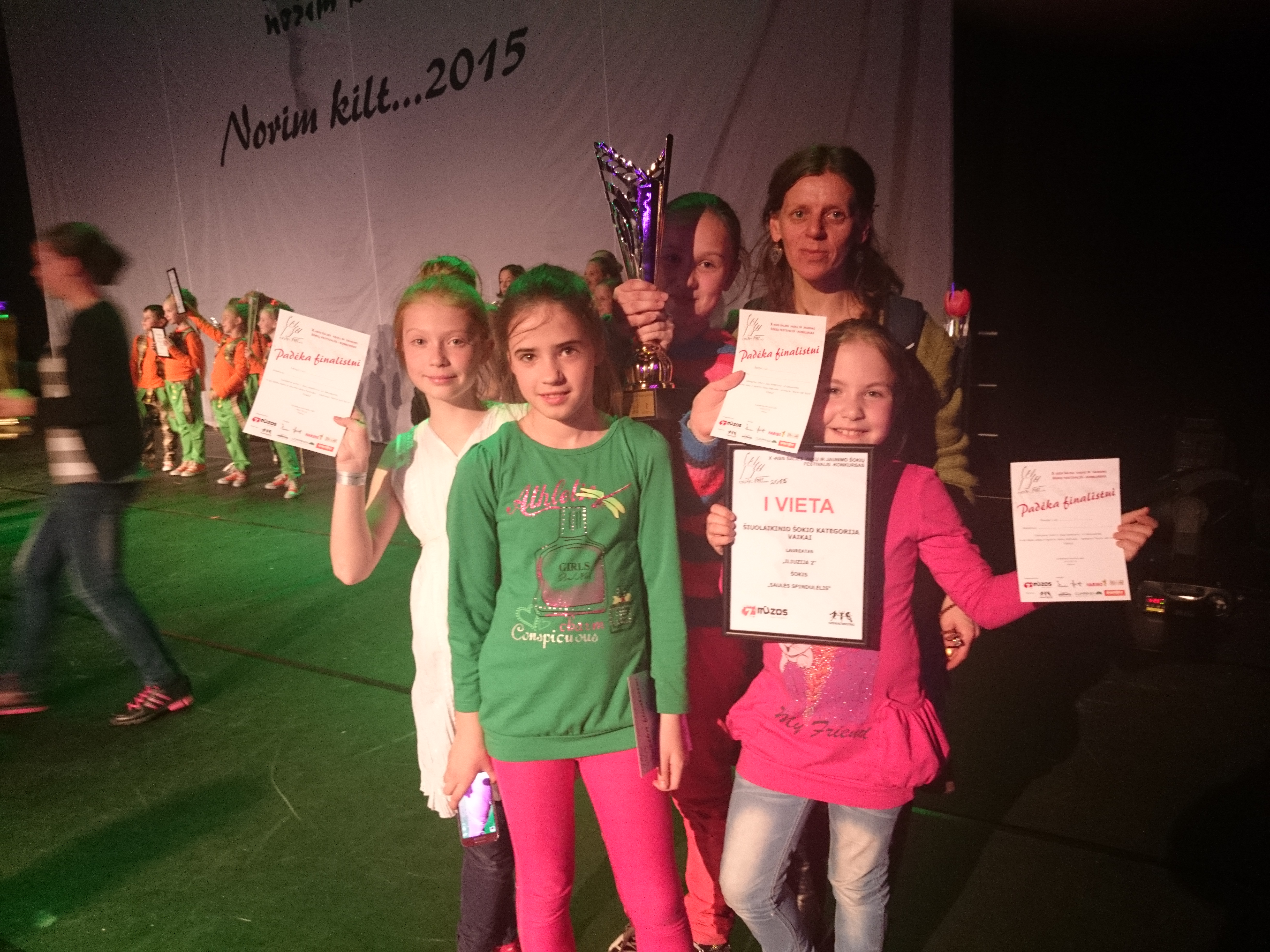 Norim kilt (Vilniaus vaikų ir jaunimo klubas „Šatrija“, vadovė Loreta Raškevičiūtė)